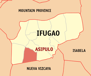 Map of Ifugao showing the location of Asipulo